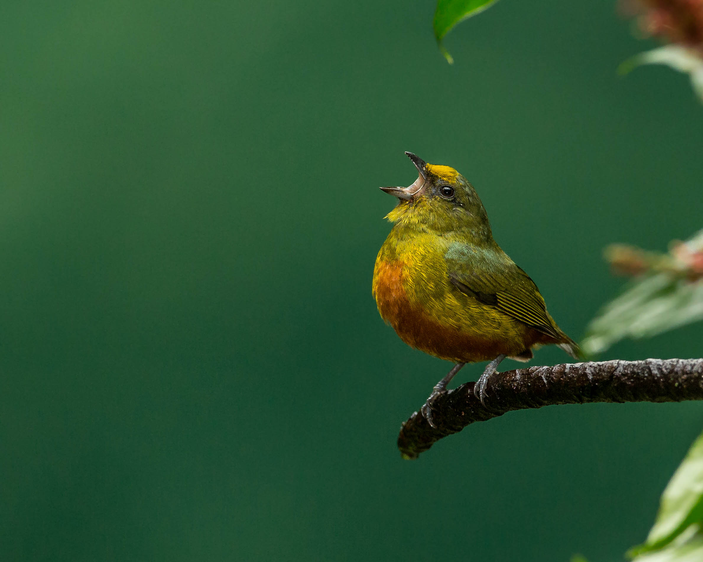 This male Olive-backed Euphonia was in full voice in the rain forest of Costa Rica.